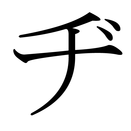 The katana character 'ji'.